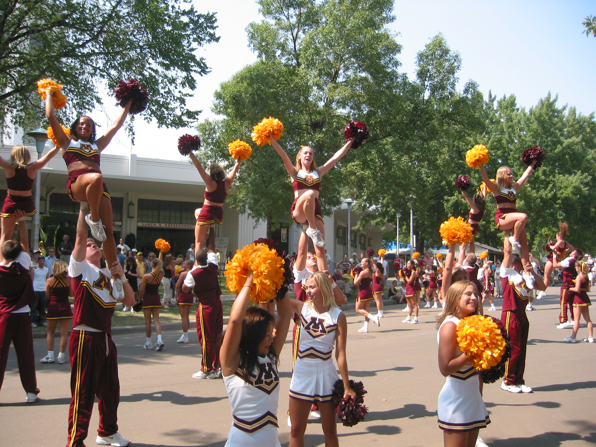 University of Minnesota Spirit Squads at the Minnesota State Fair. August 24, 2003